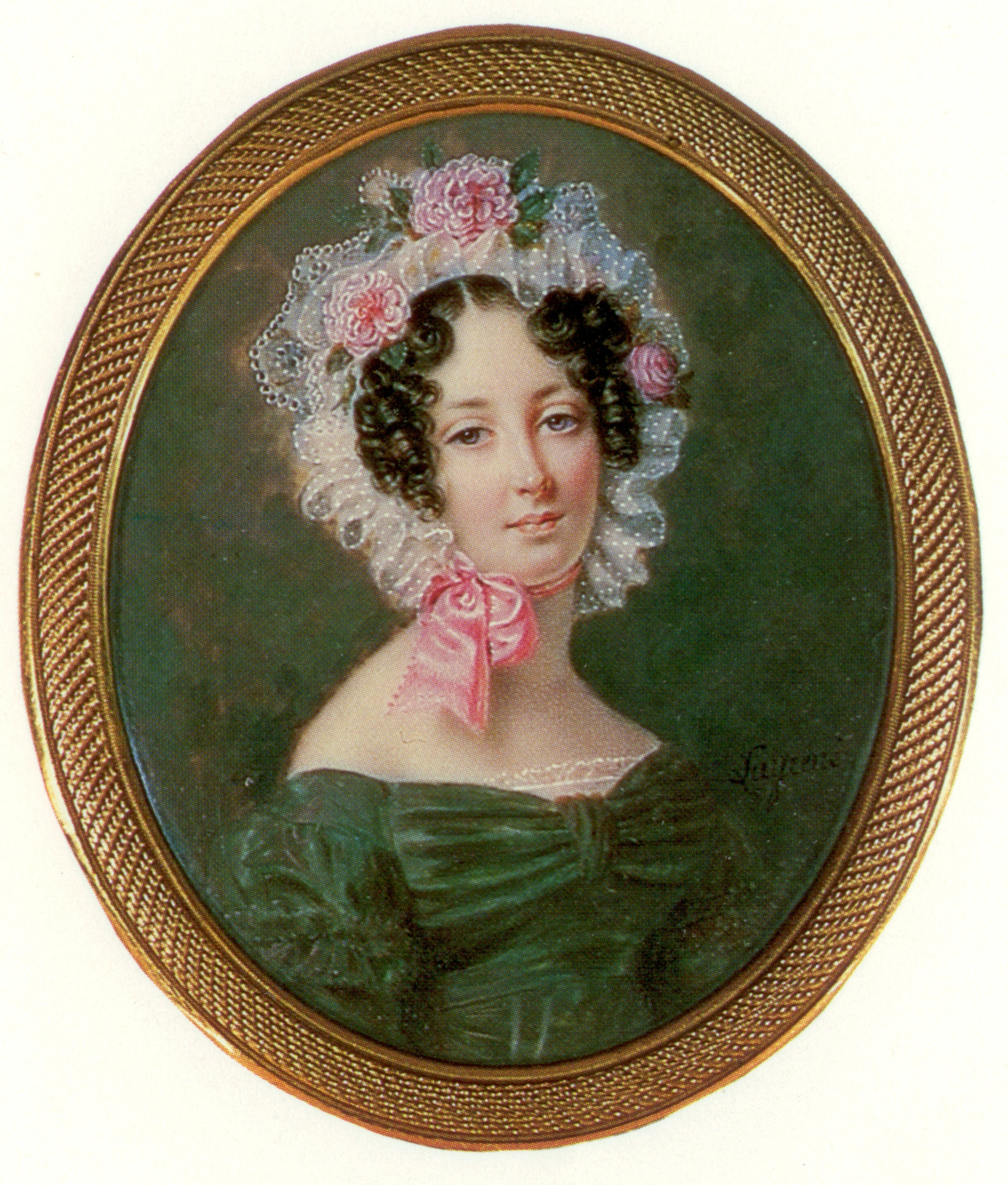 Portrait of a Woman